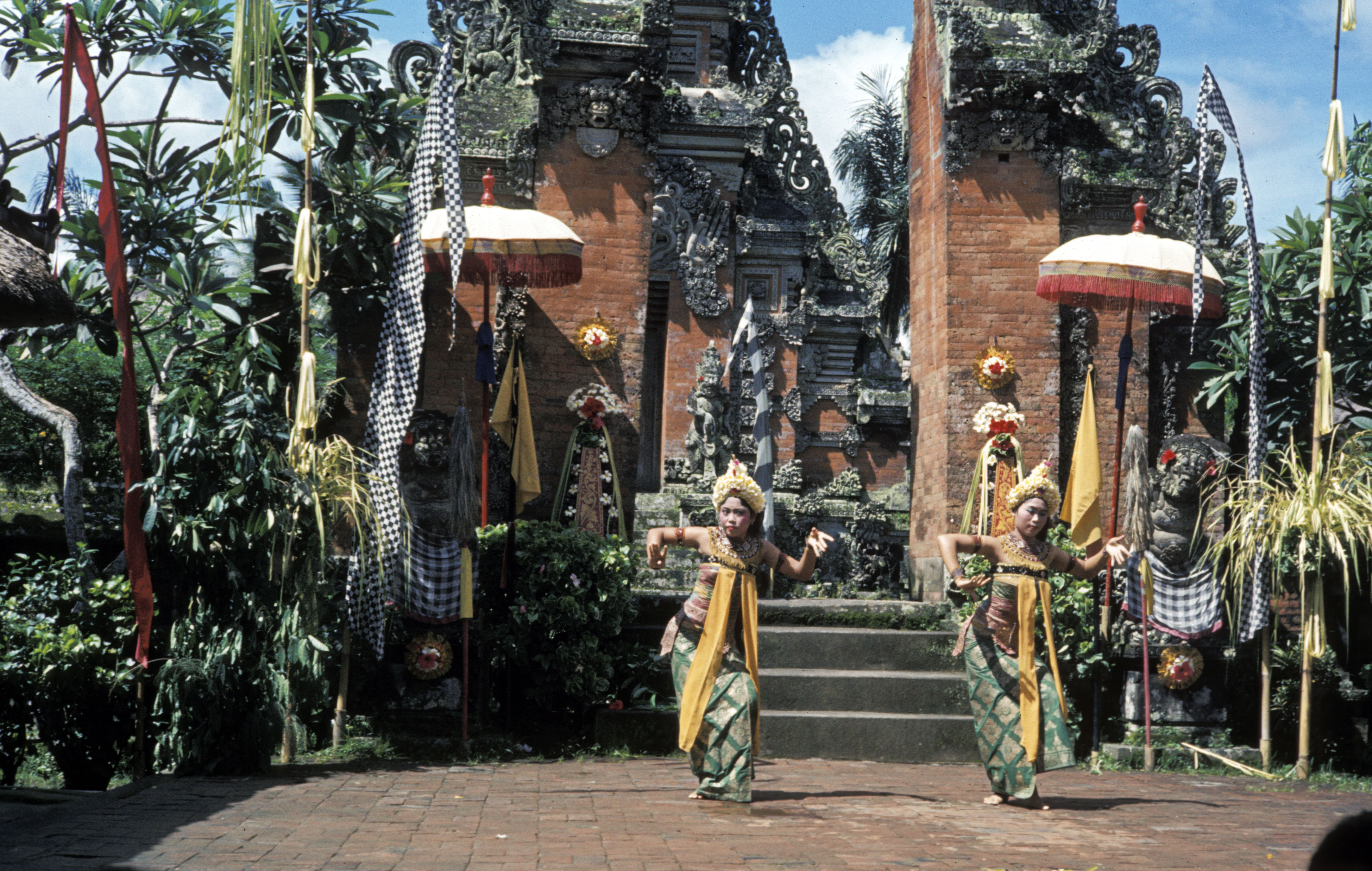 Image from Bali in 1981; locality details unknown